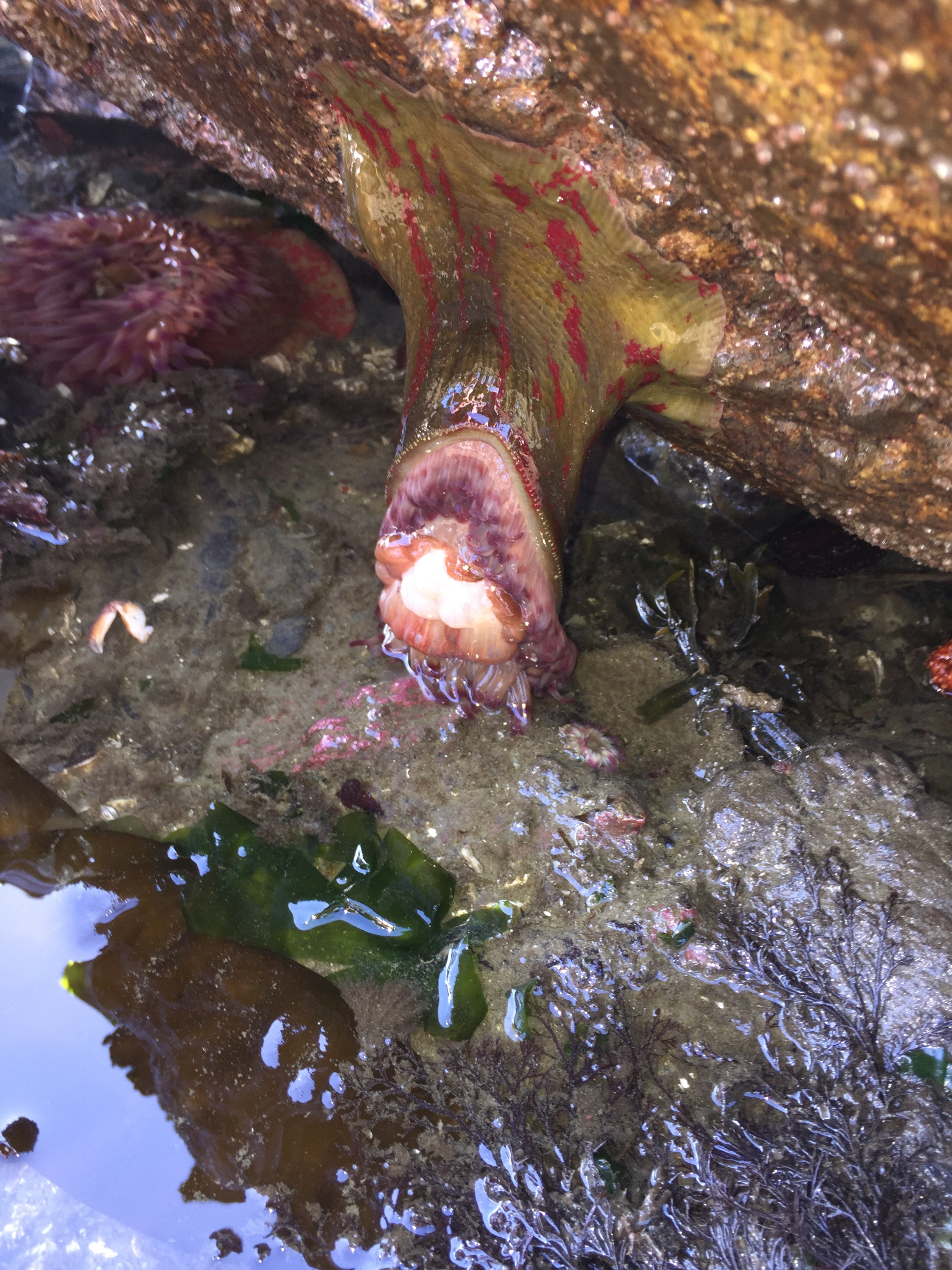 A christmas anemone attached to a rock at Rosario Intertidal Zone Beach in the Deception Pass State Park in Washington.